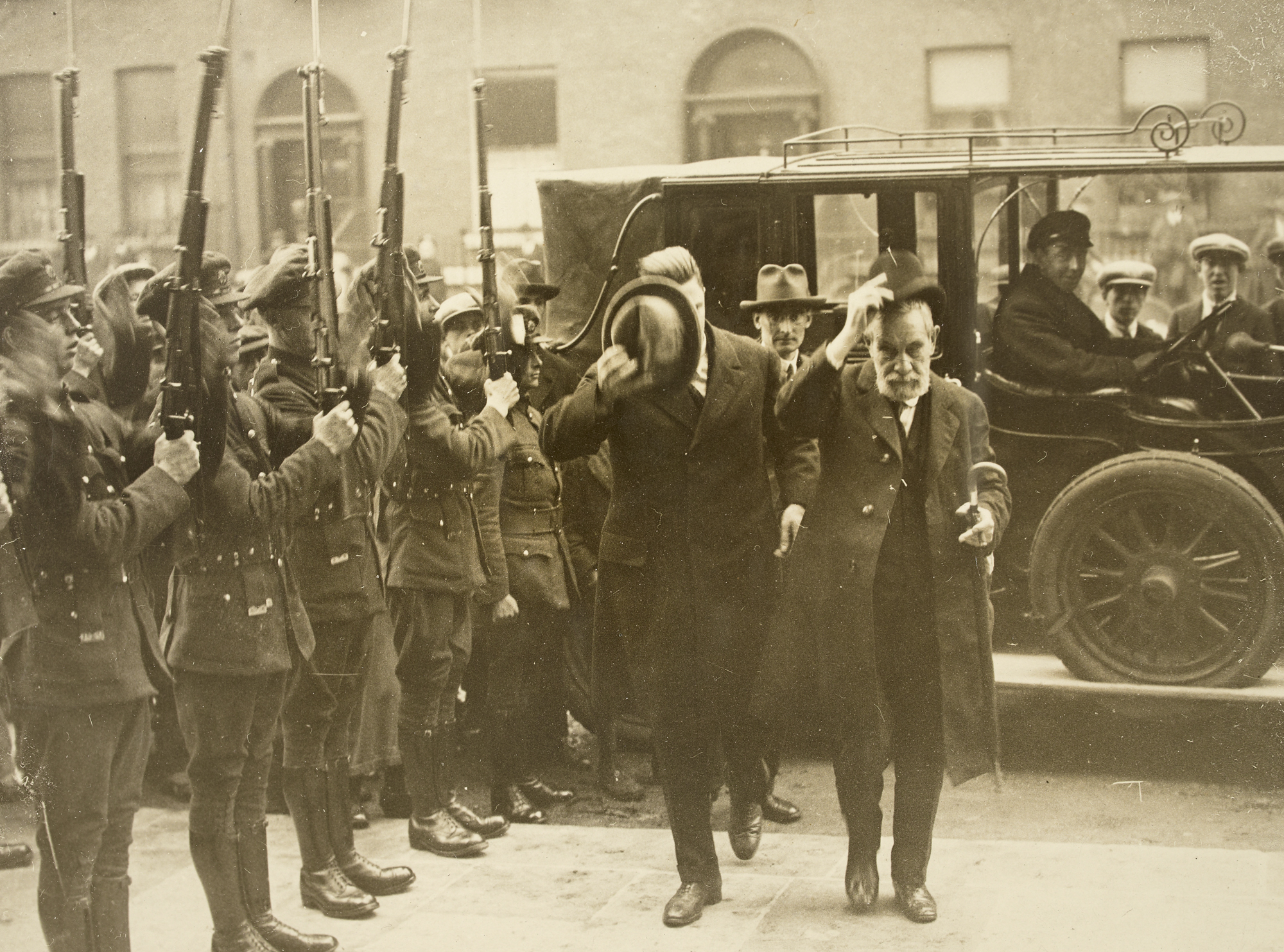 John Devoy the old Fenian arrives at Government Buildings to meet President Cosgrave of the Irish Free State Government. Devoy who was once described by the London Times as "The greatest enemy of this country (Britain) Ireland has produced since Wolfe Tone" Photographer: WD Hogan Collection: The HOGAN/WILSON Collection. Circa: 23rd July 1924 NLI Ref: HOG 90 You can also view this image, and many thousands of others, on the NLI’s catalogue at